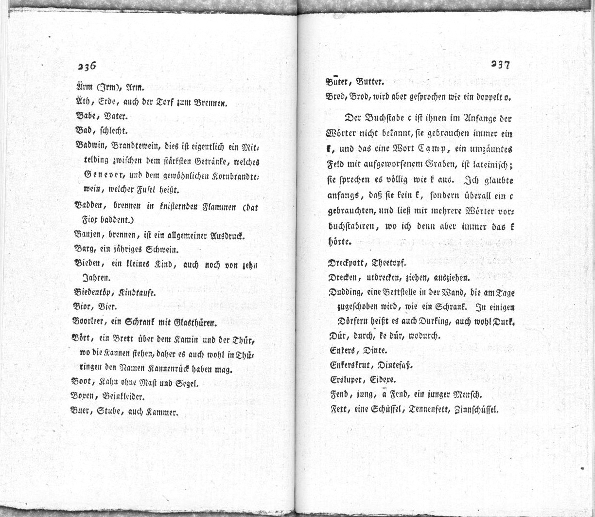 Two pages (236, 237) from the old vocabulary of Hoche.